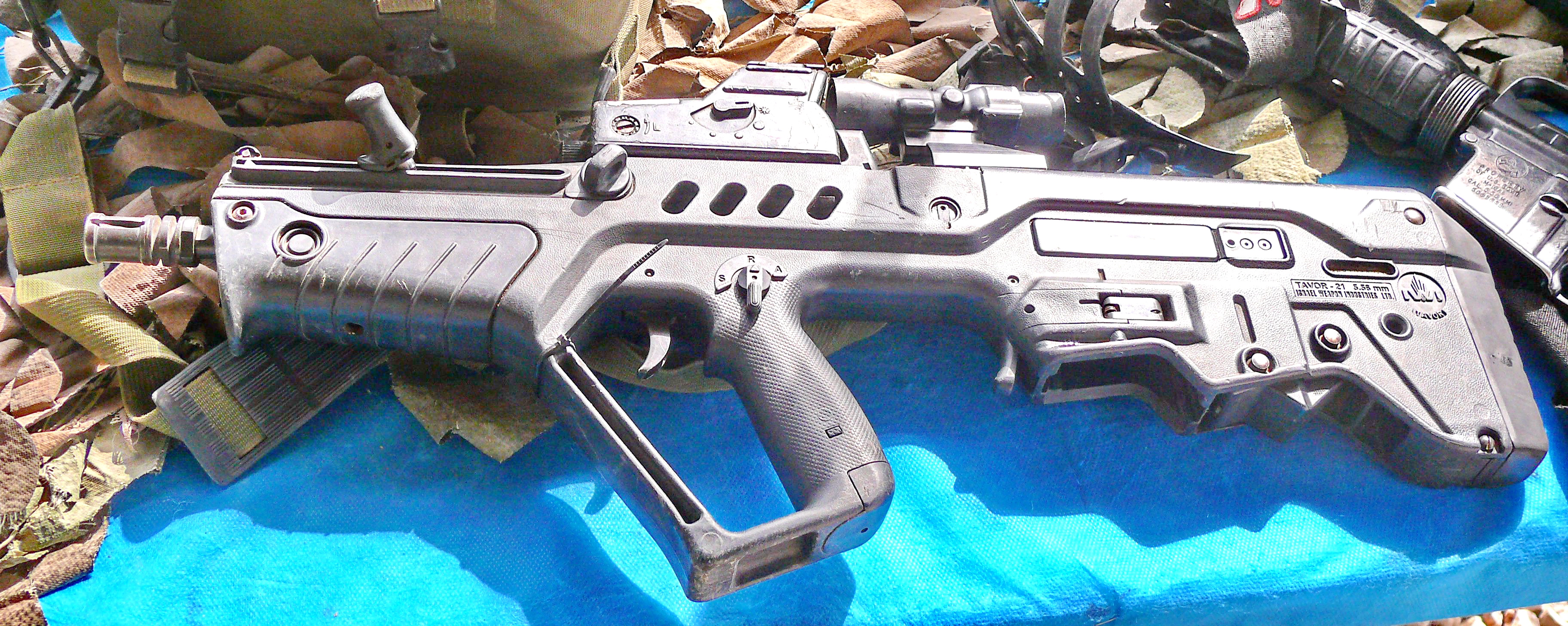 IWI Tavor CTAR-21 assult rifle